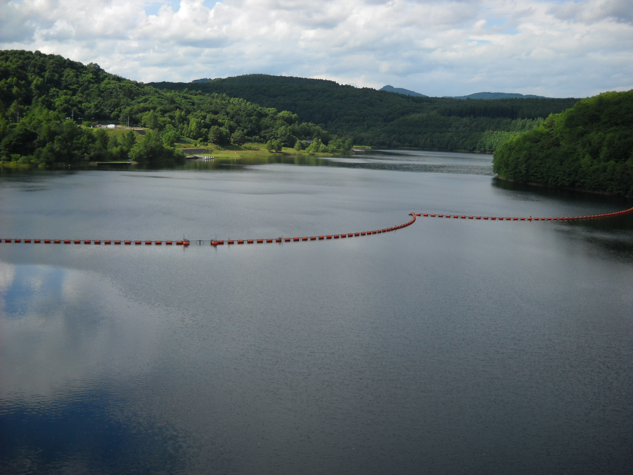 Lake Sahoro, Shintoku town, Hokkaido, Japan